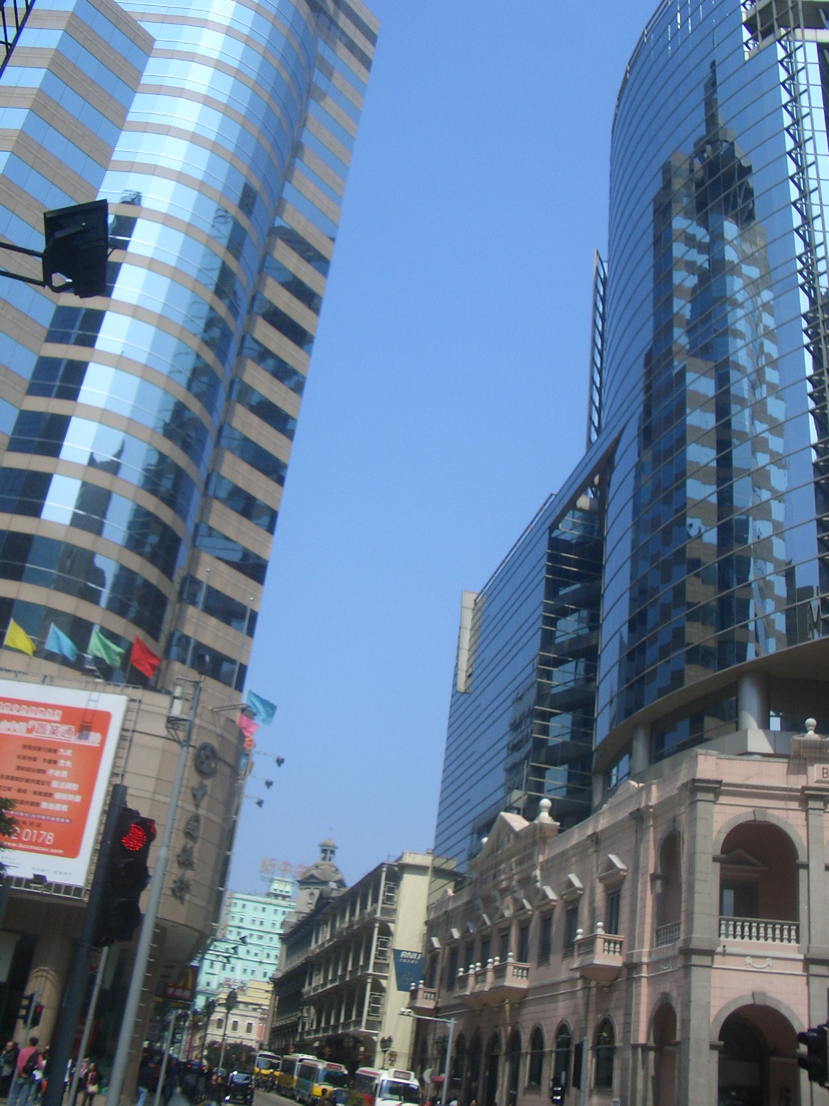 澳門新馬路(photo taken by 9old9)